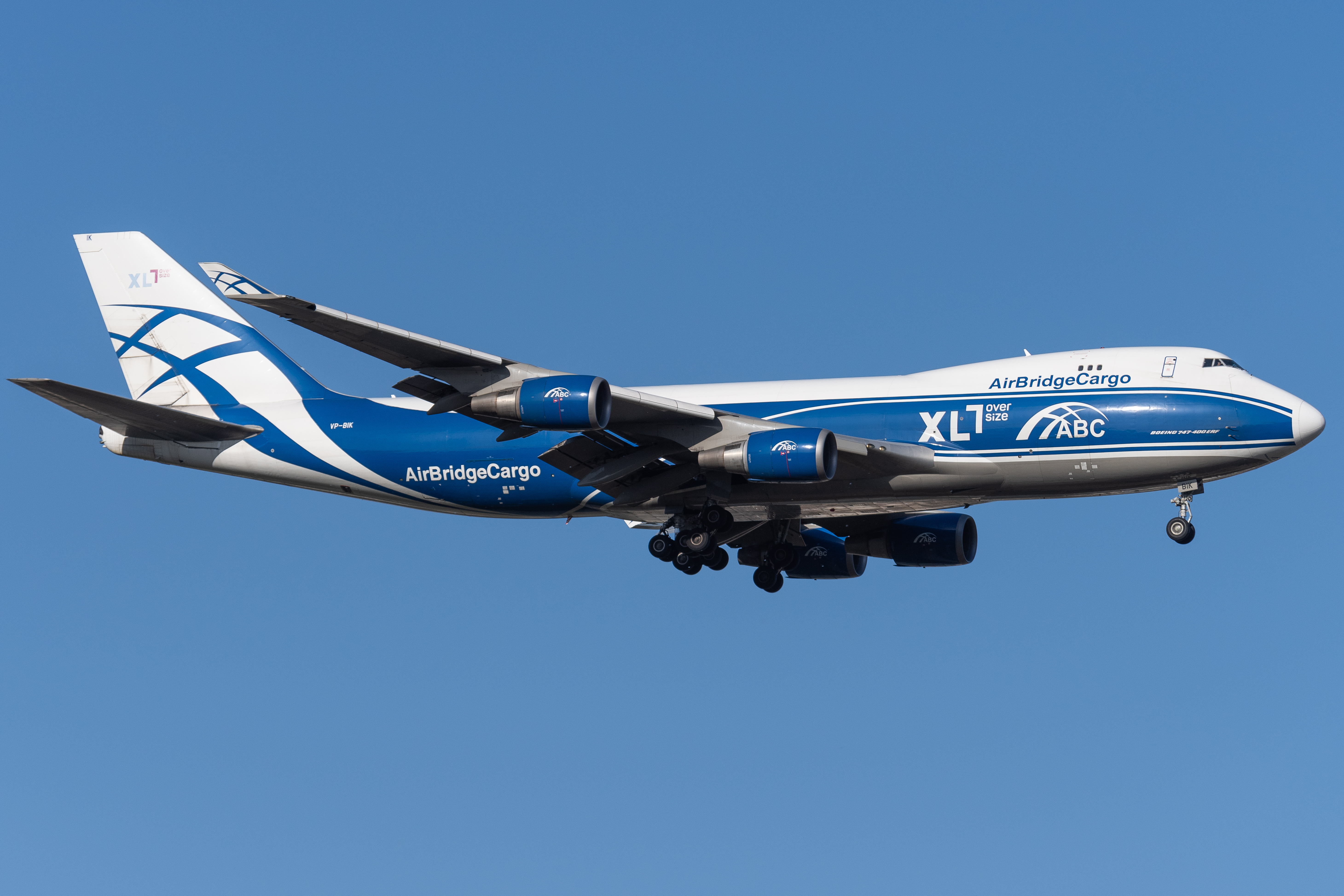 AirBridgeCargo 731 from Krasnoyarsk. Nearly a "Togetsukyo"...